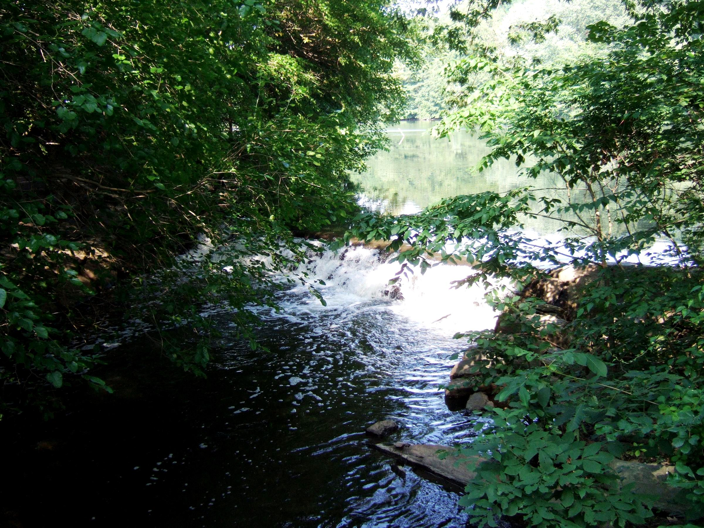 The Bronx River in a woodland landscape, New York City